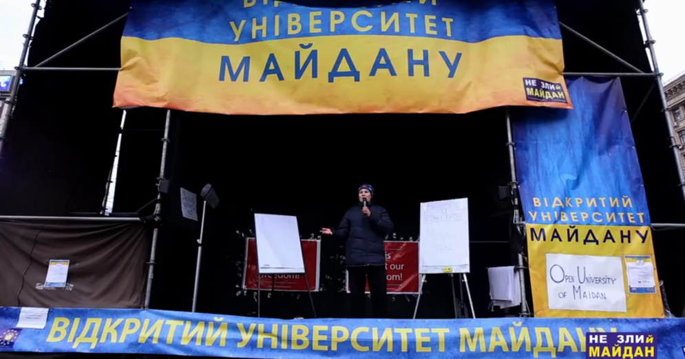 Tatyana Montyan lectures at the «Euromaidan Open University», January 7, 2014.